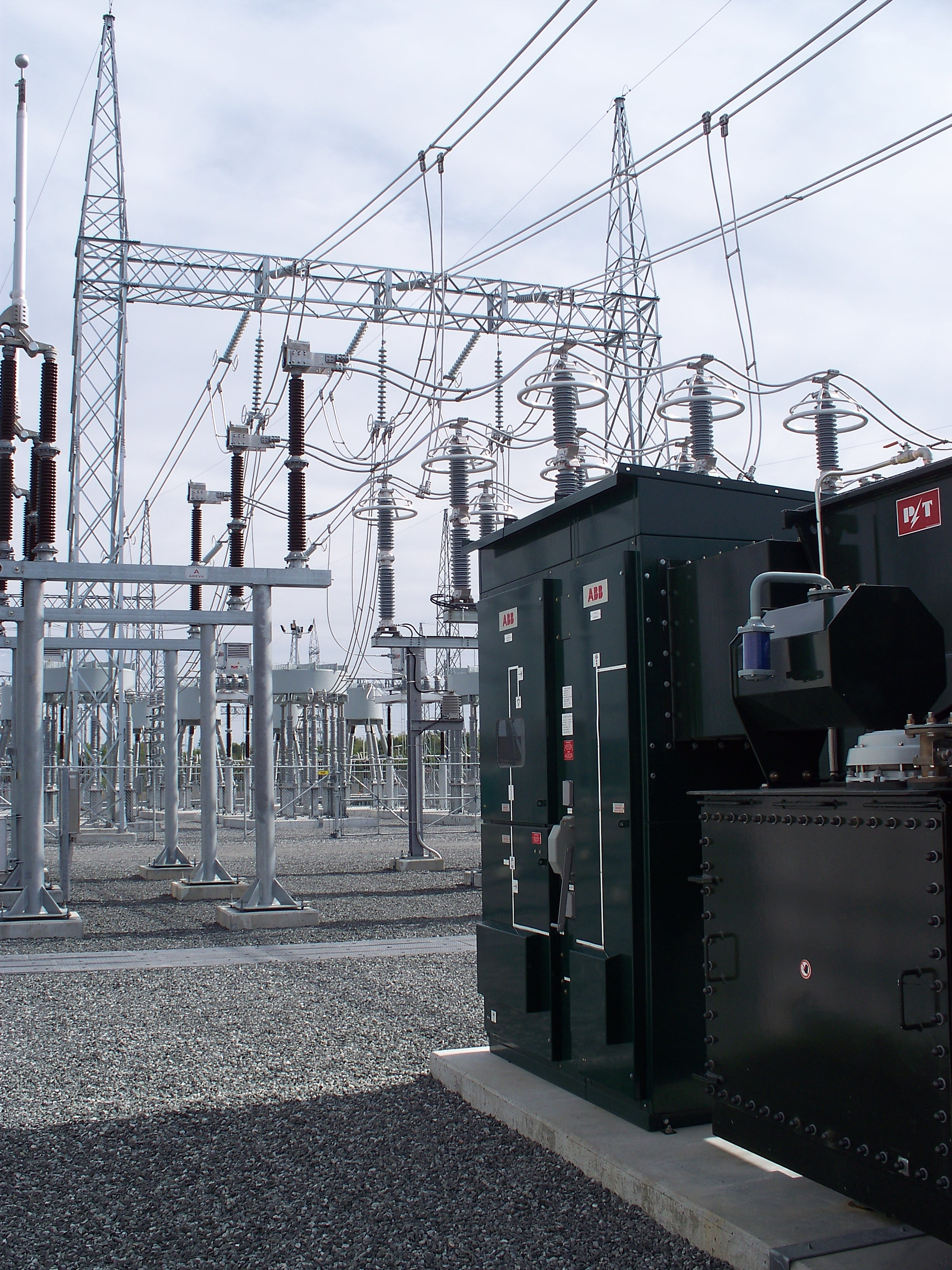 Transmission lines at Hydro-Québec's Outaouais substation in L'Ange-Gardien, Quebec.